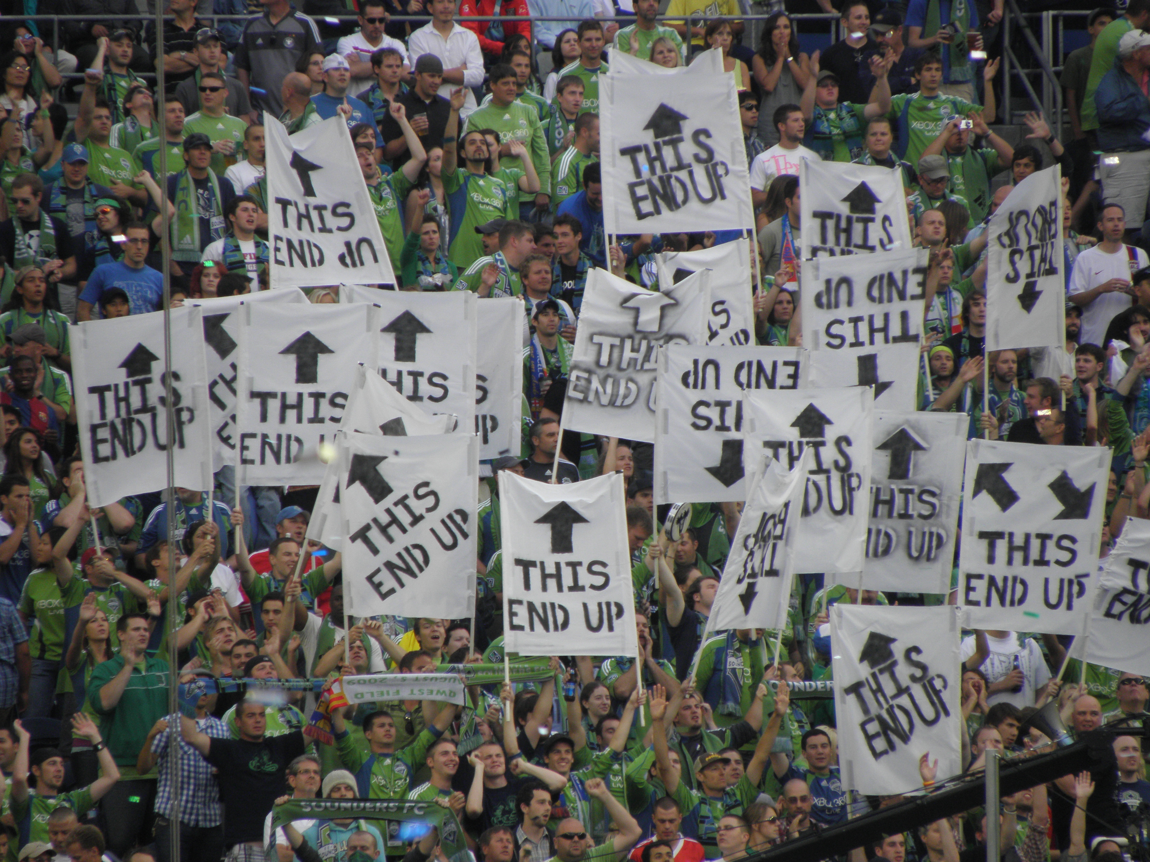 The Seattle Sounders are against FC Barcelona at Qwest Field in Seattle, USA in 08/05/09